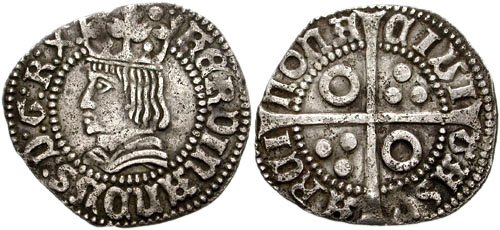 Spain. Fernando el Católico, as Count of Barcelona. 1479-1516. AR Croat (27mm, 2.98 gm). FERDINANDUS D G R:X Crowned bust left CIVITAS BARCINONA Long cross with pellets and annulets. Cf. Badia i Torres 777; cf. C&C 2164. Toned, good VF, light porosity.